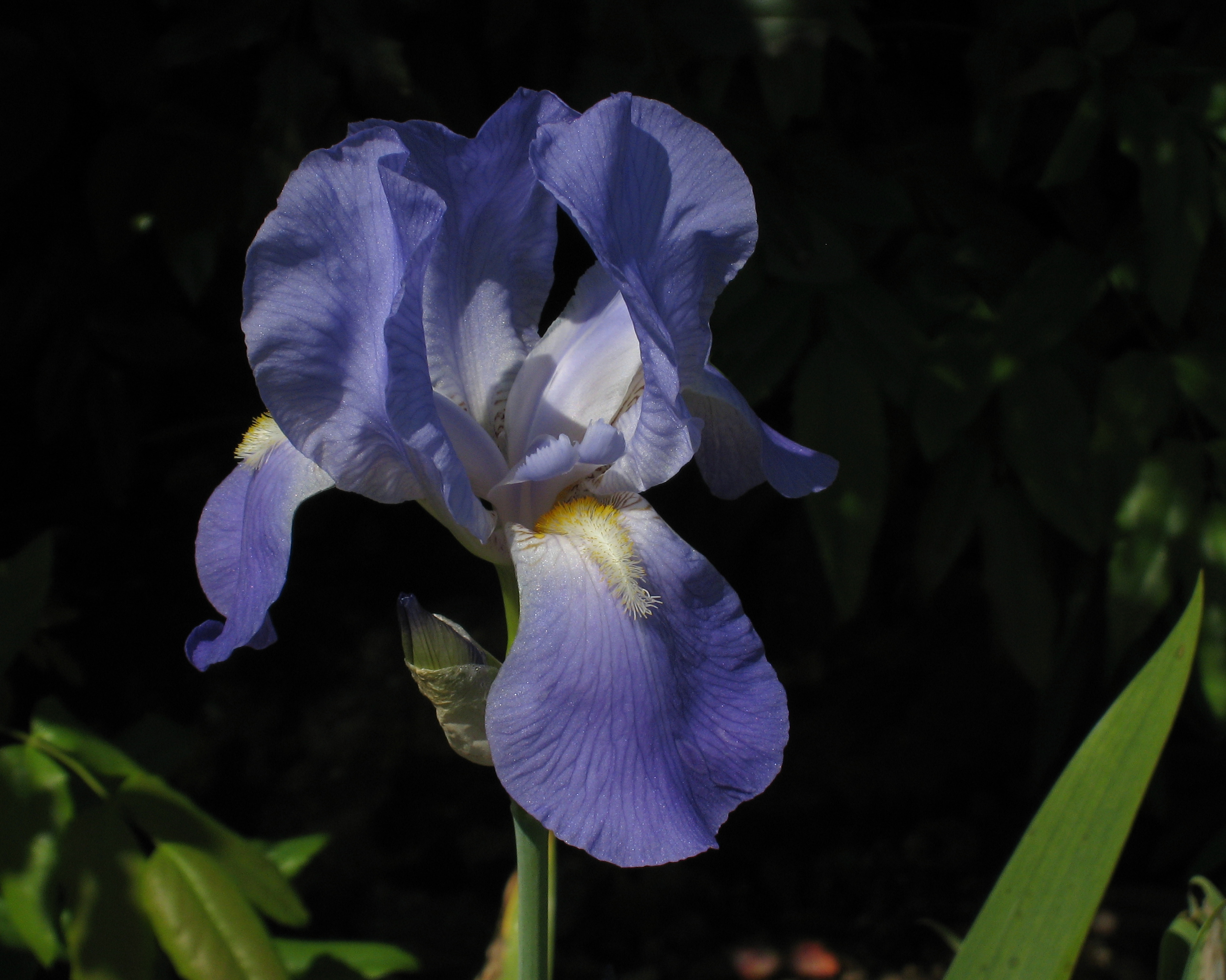 Iris germanica, photo taken in the Périgord-region of France